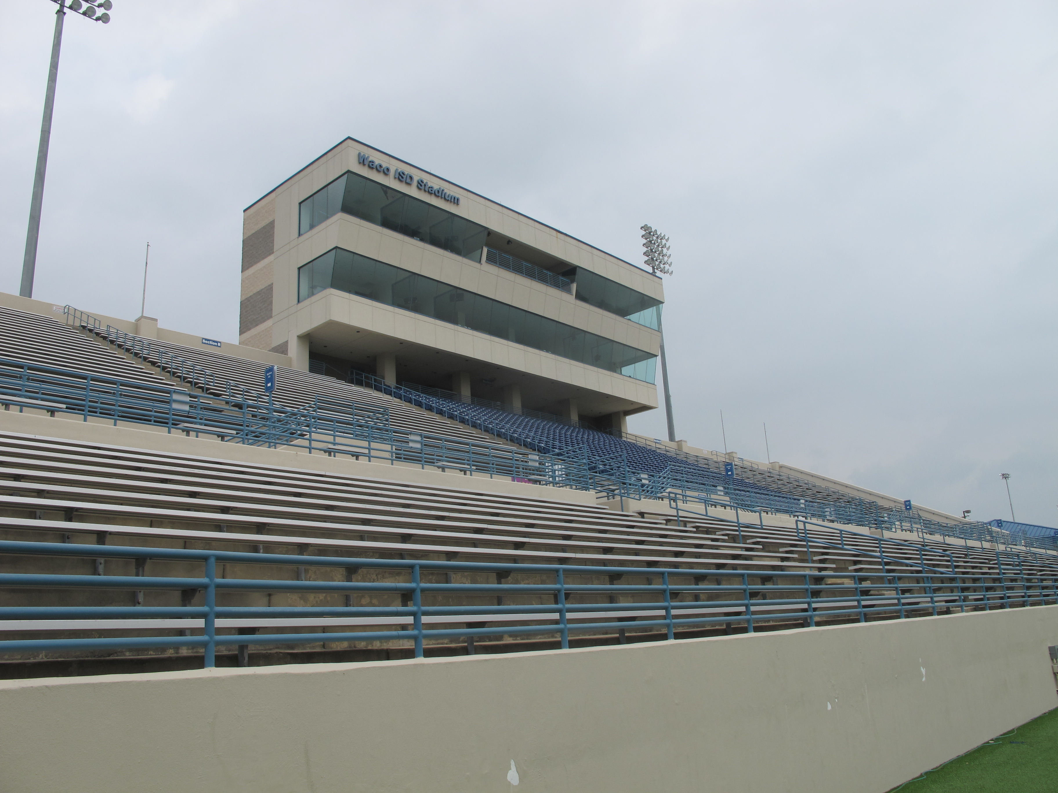 Waco ISD Stadium's Main Stand